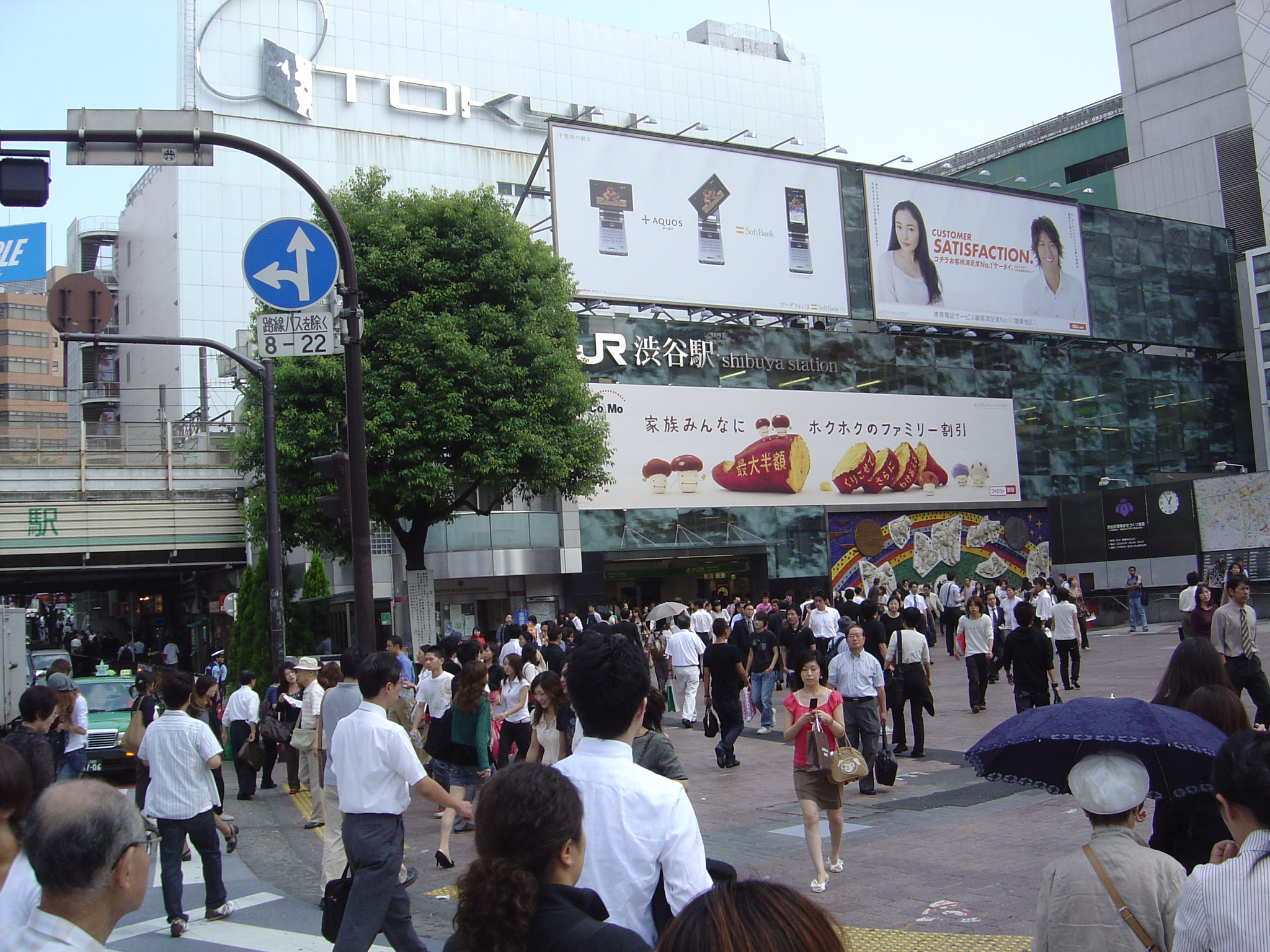 Check out 's tours and things to do in Japan. This photo is free to use for your own purposes in accordance to the ‘Attribution-ShareAlike Creative Commons’ licence.